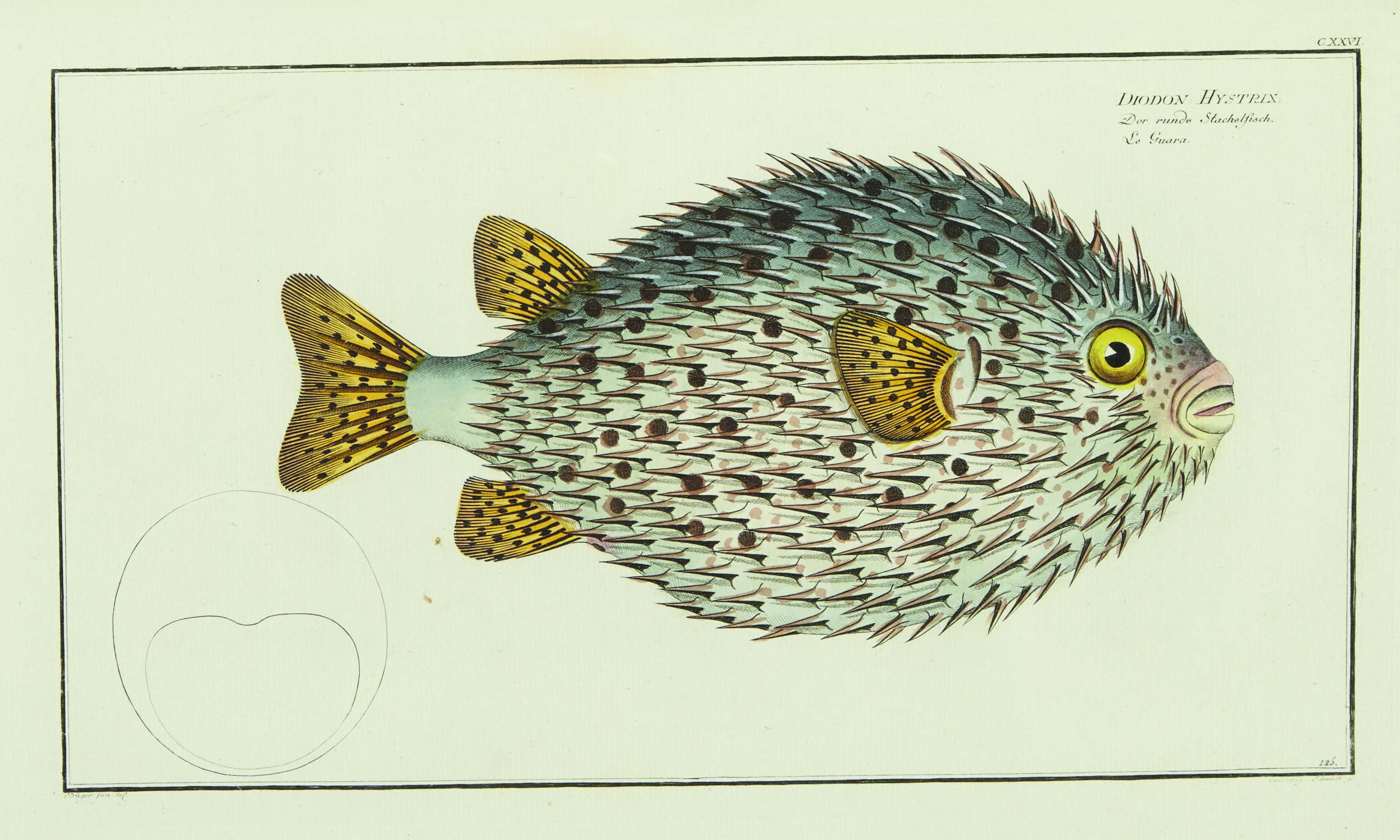 Plate from "a fine and complete copy" of: BLOCH, Marcus Elieser (1723-1799). Ichthyologie, ou Histoire naturelle, generale et particuliere des poissons. Berlin: Chez l'auteur [François de la Garde], 1785-97. as offered for sale in 2019, by Christie's (Provenance: Brownlow Cecil, 2nd Marquess of Exeter KG, PC (1795-1867, Lord Chamberlain and Lord Steward of the Household to Queen Victoria; bookplate) – Sir Jocelyn Stevens CVO (1932-2014; his sale, Bonhams, 27 June 2006, lot 19).).